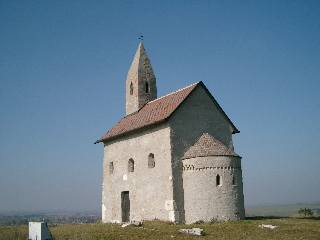 Románsky kostolík v obci Dražovce pri Nitre This medium shows the protected monument with the number 403-1417/0 in the Slovak Republic.